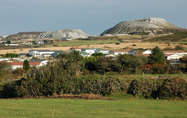 Chalets in the "Cornish Alps" The phrase "Cornish Alps" is one often applied to the china clay district, a reference of course to the huge spoil heaps. These chalets look like they might be tourist accommodation but the presence of greenhouses and such like seem to indicate a residential development.